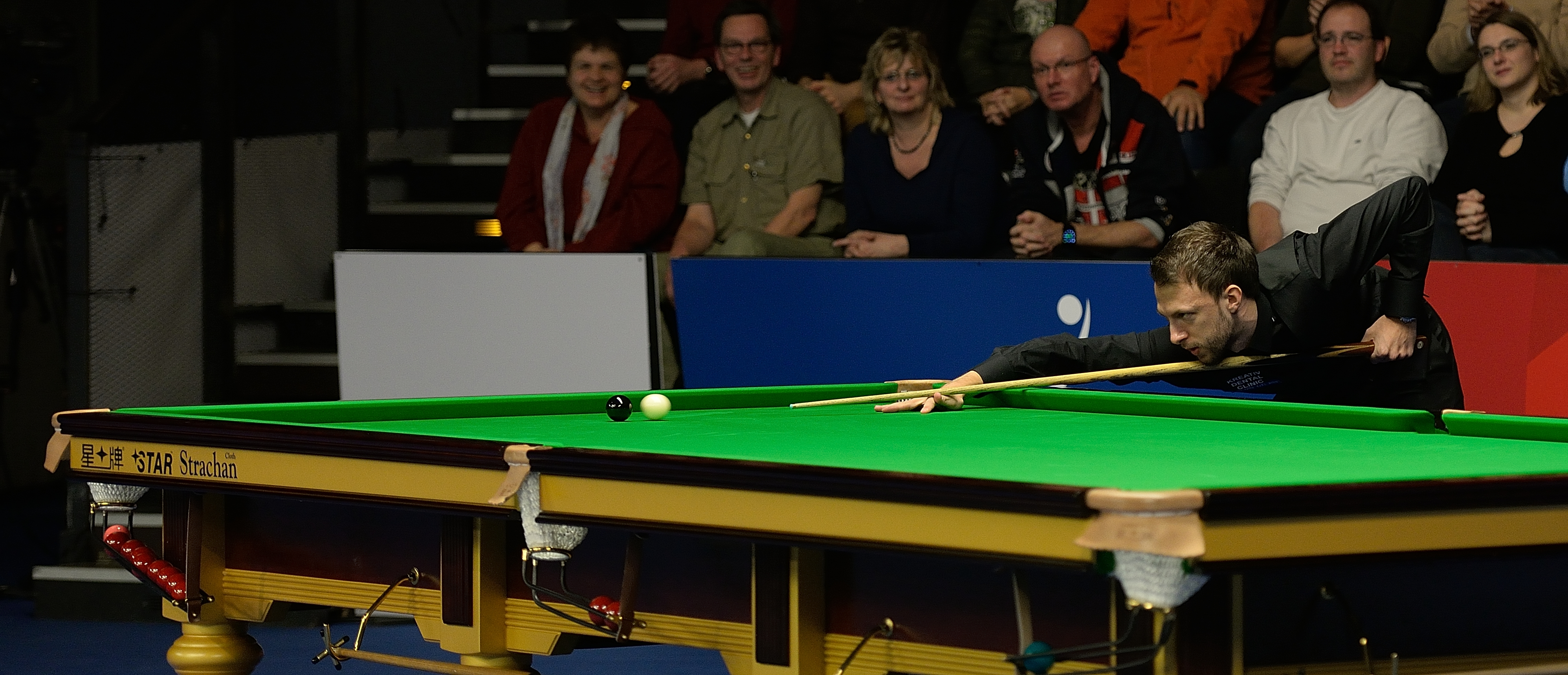 Picture taken in Berlin during the Snooker German Masters in 2015. Judd Trump.